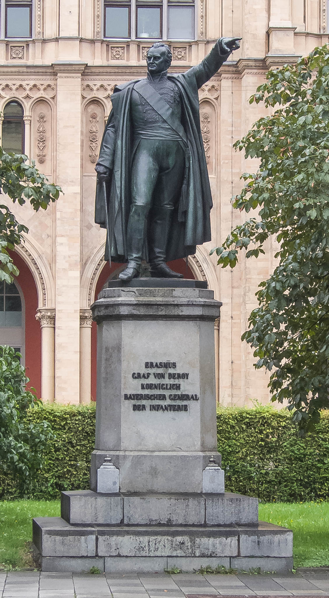 Erasmus Graf von Deroy, Royal Bavarian General of Infantry - Statue by Johann Halbig (1814-1882)